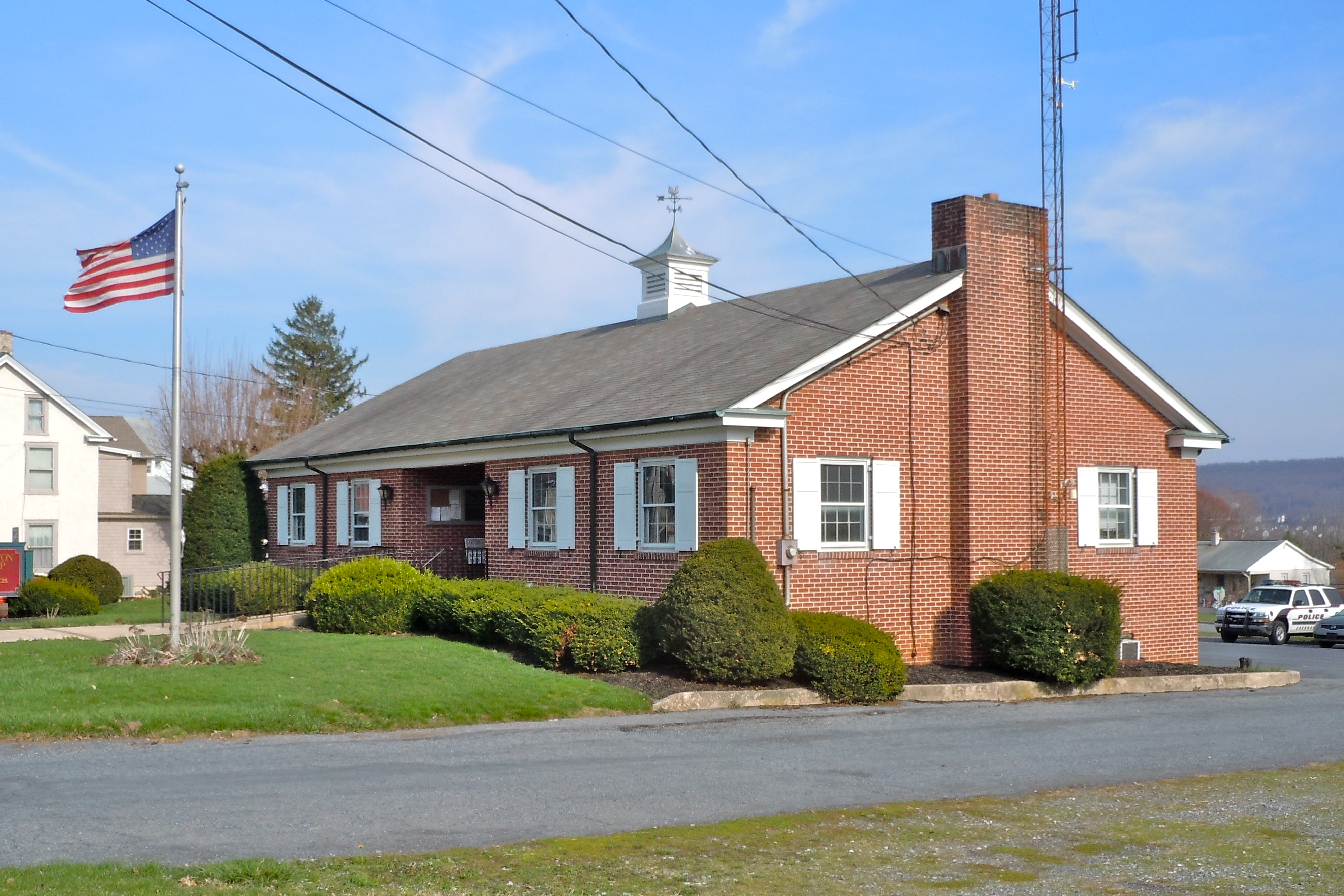 Caernarvon_Township Municipal Offices and Police Department in Morgantown, Berks County, Pennsylvania. Note there is an adjoining Caernarvon_Township in Lancaster County, that is unrelated to this office.